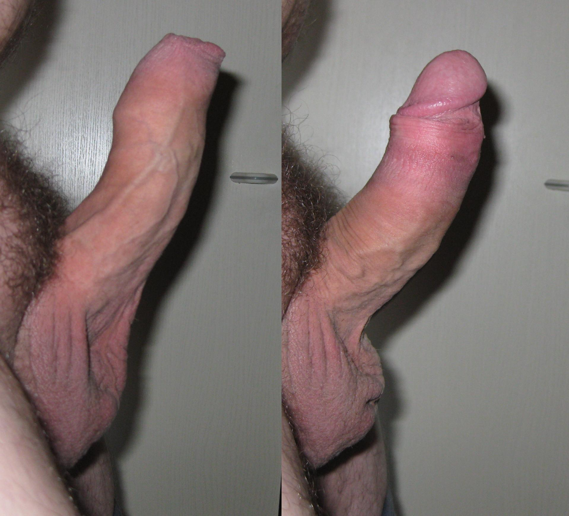 penis with foreskins (satyr)